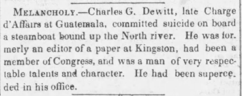 The Baltimore Sun's report of DeWitt's death